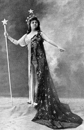 Belgian opera singer Alice Verlet (1873-1934) in Mozart's Die Zauberflöte